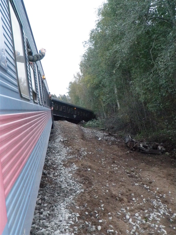 The derailment happened near the border between Norway and Sweden on Oct. 1st, 2010